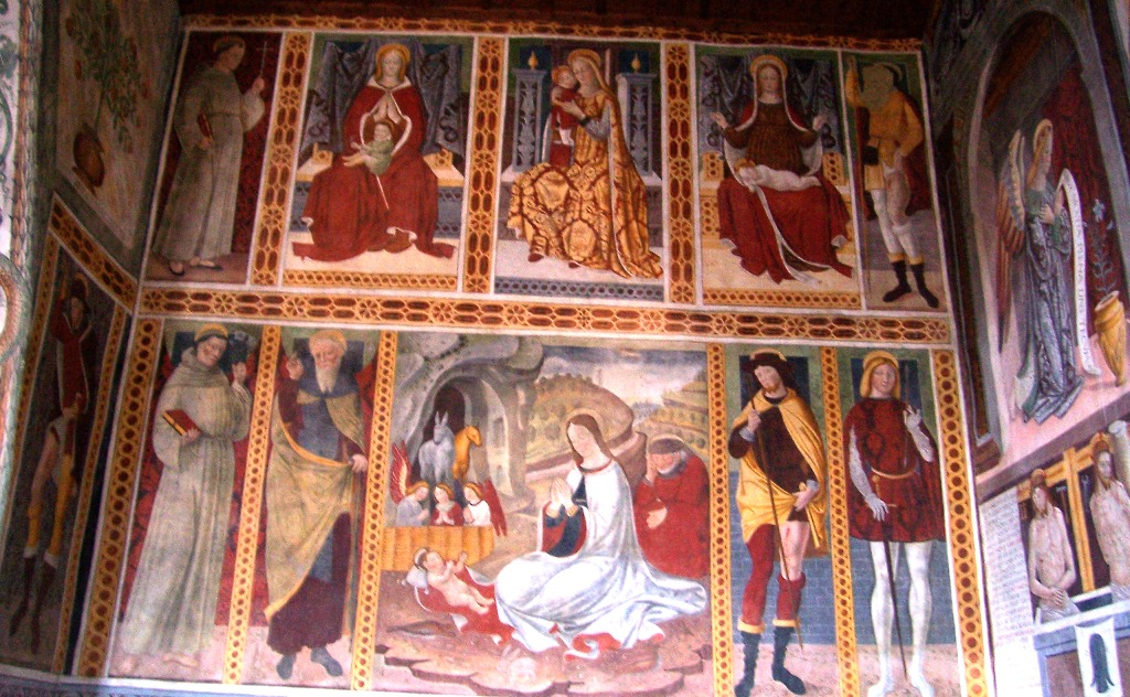 St, Mary, St Sebastian, St Rocchus, St Mary, Esine, Val Camonica